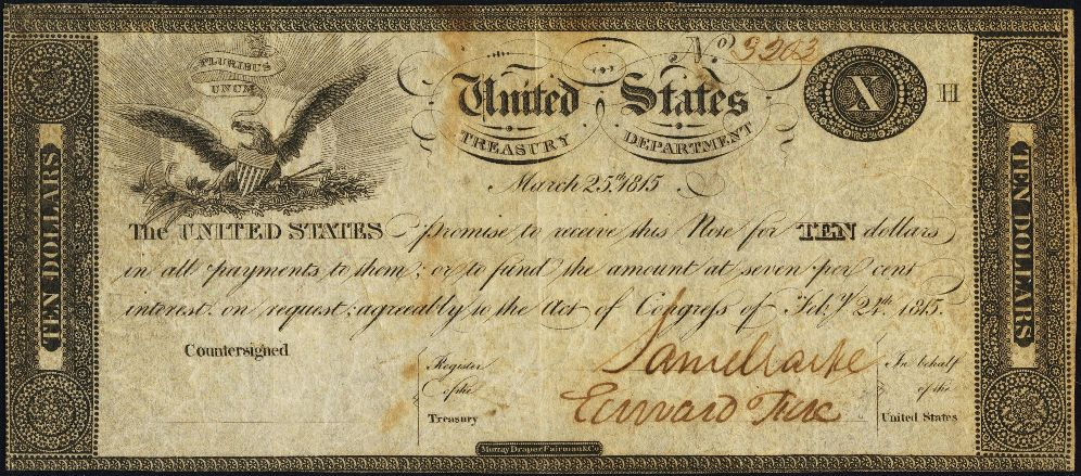 Image of an unissued Small Treasury Note associated with the War of 1812